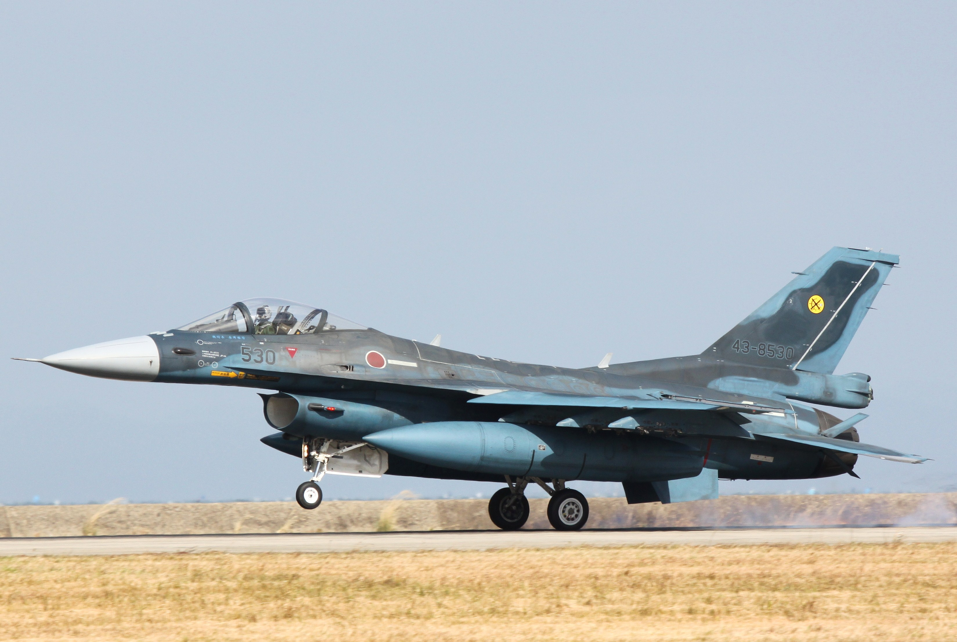 Although many more F-2As flew during the course of my time at the end of the runway, most, like this one, carried no external armament.